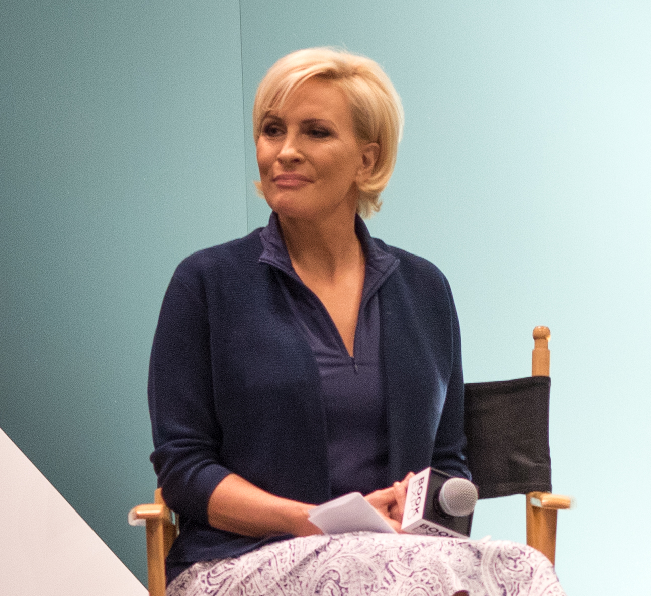 Mika Brzezinski Interviewers Turned Interviewees panel during BookExpo America 2018 at the Javits Convention Center in New York City.